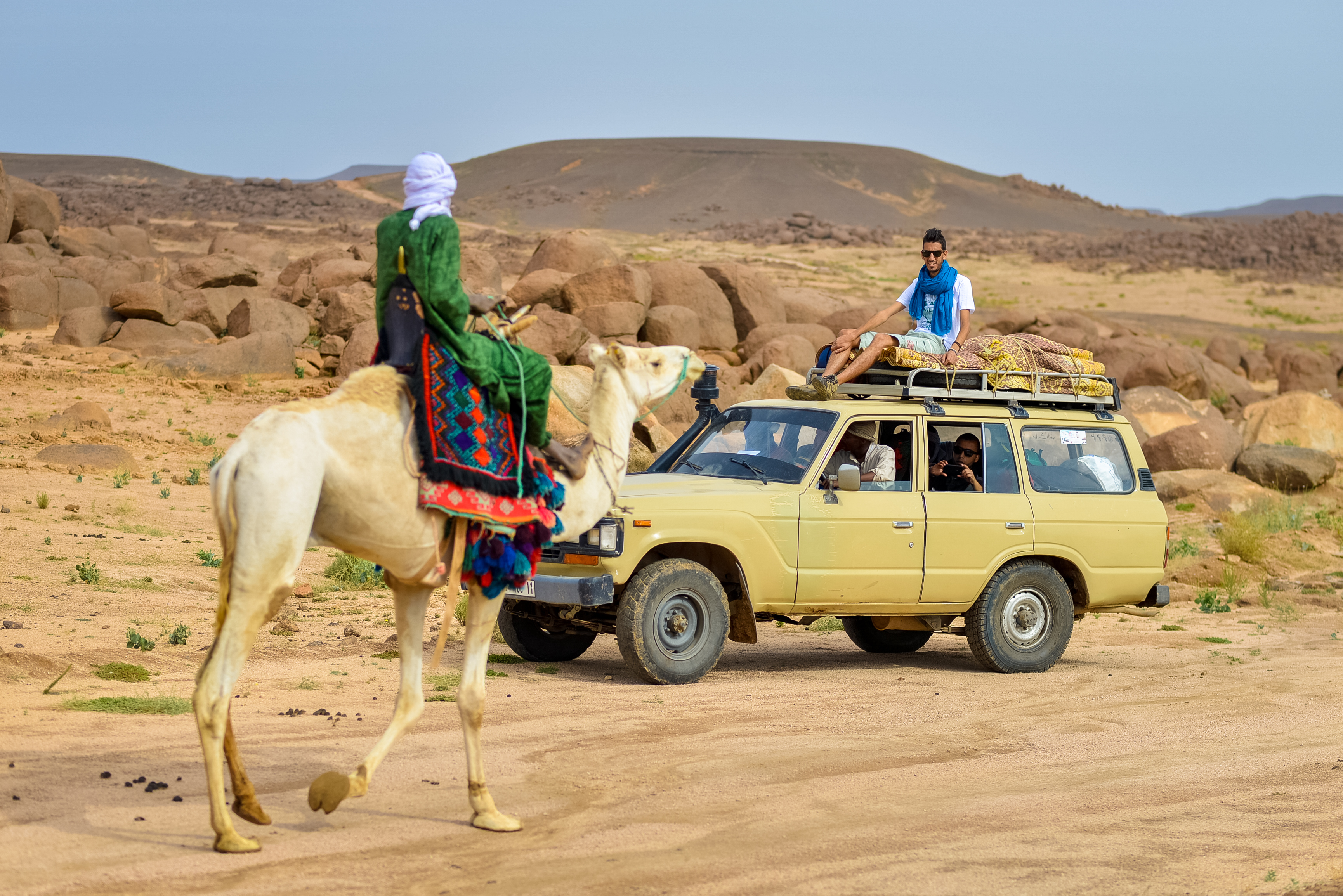 This is an image with the theme "Africa on the Move or Transport" from: Algeria